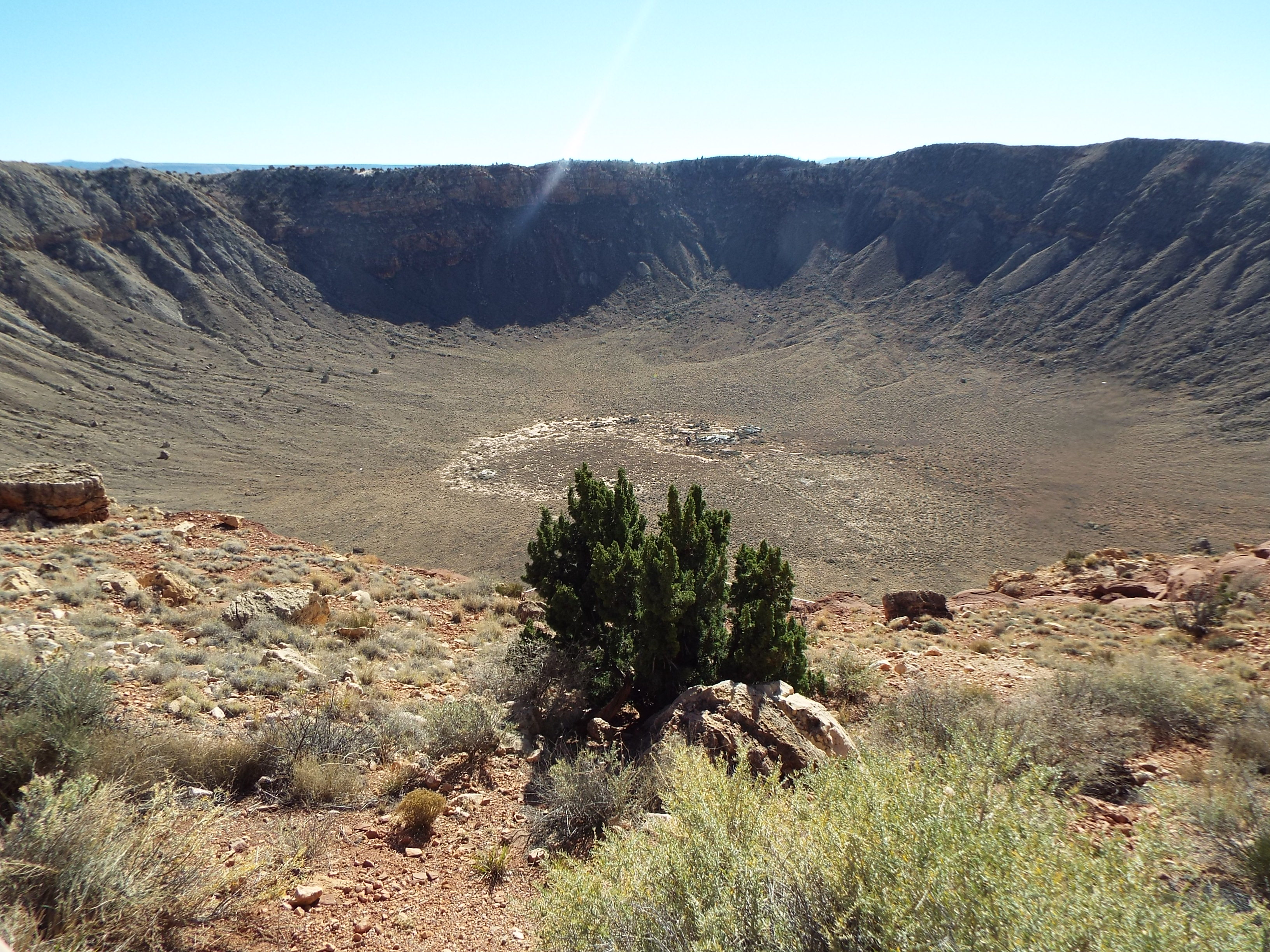 The Meteor Crater is nearly one mile across, 2.4 miles in circumference and more than 550 feet deep. The crater was created about 50,000 years ago. It is located on exit 233 off Interstate 40 in Winslow, Arizona. The crater is also known as the Daniel Moreau Barringer Crater who 1909 claimed that the crater was the result of a meteorite impact. It was designated a National Natural Landmark in November 1967.